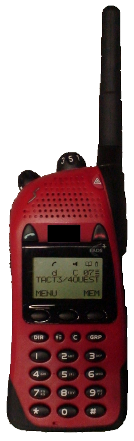 French Firefigther Digital Radio mobile trasmission